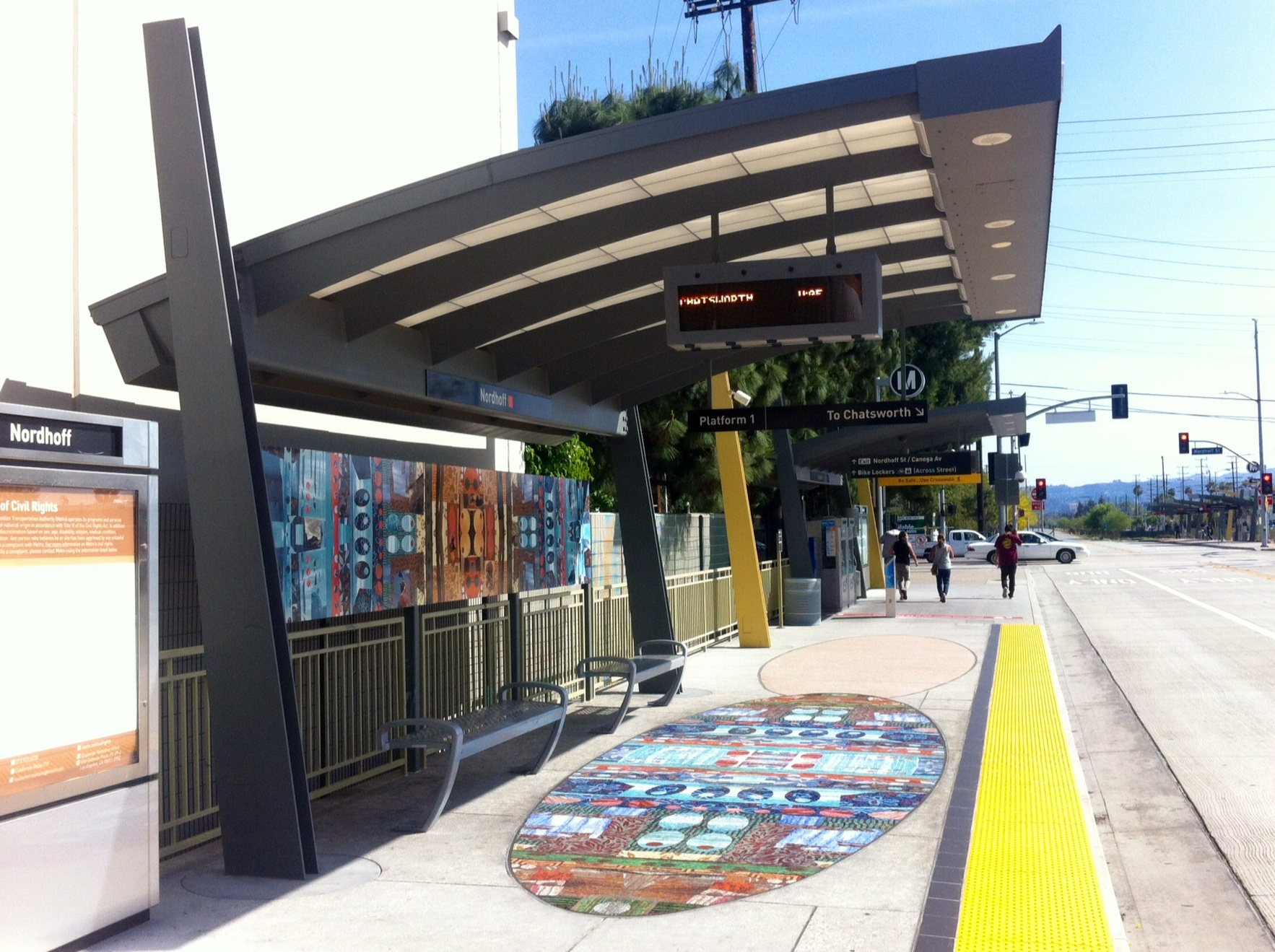 The platform view of Nordhoff Station.